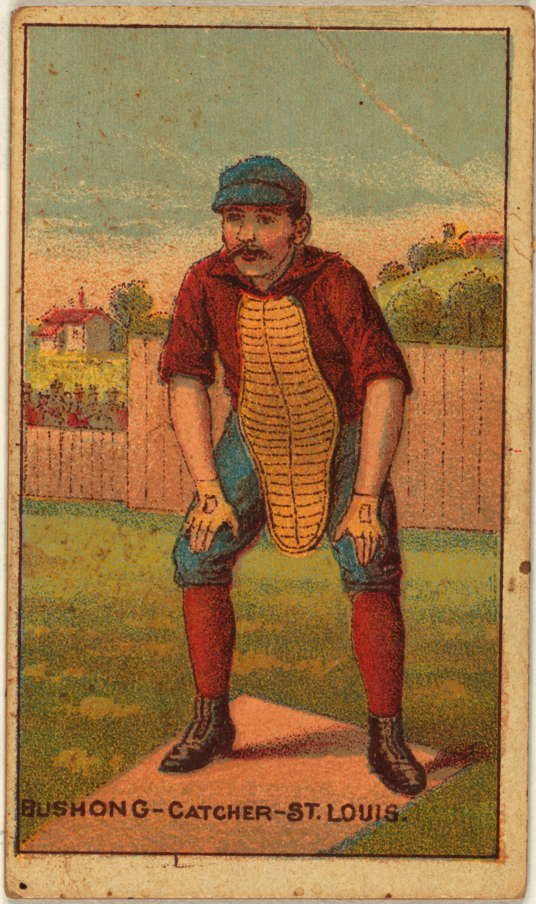 Baseball card of Doc Bushong, catcher, St. Louis Browns. N284 Buchner Gold Coin set. reverse